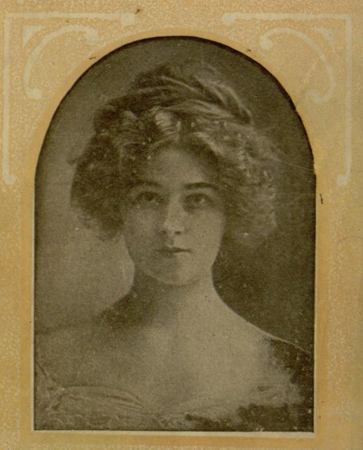 Taken from the book shown, image of the author. From "The Shadow of a Sin", listed as Bertha Clay